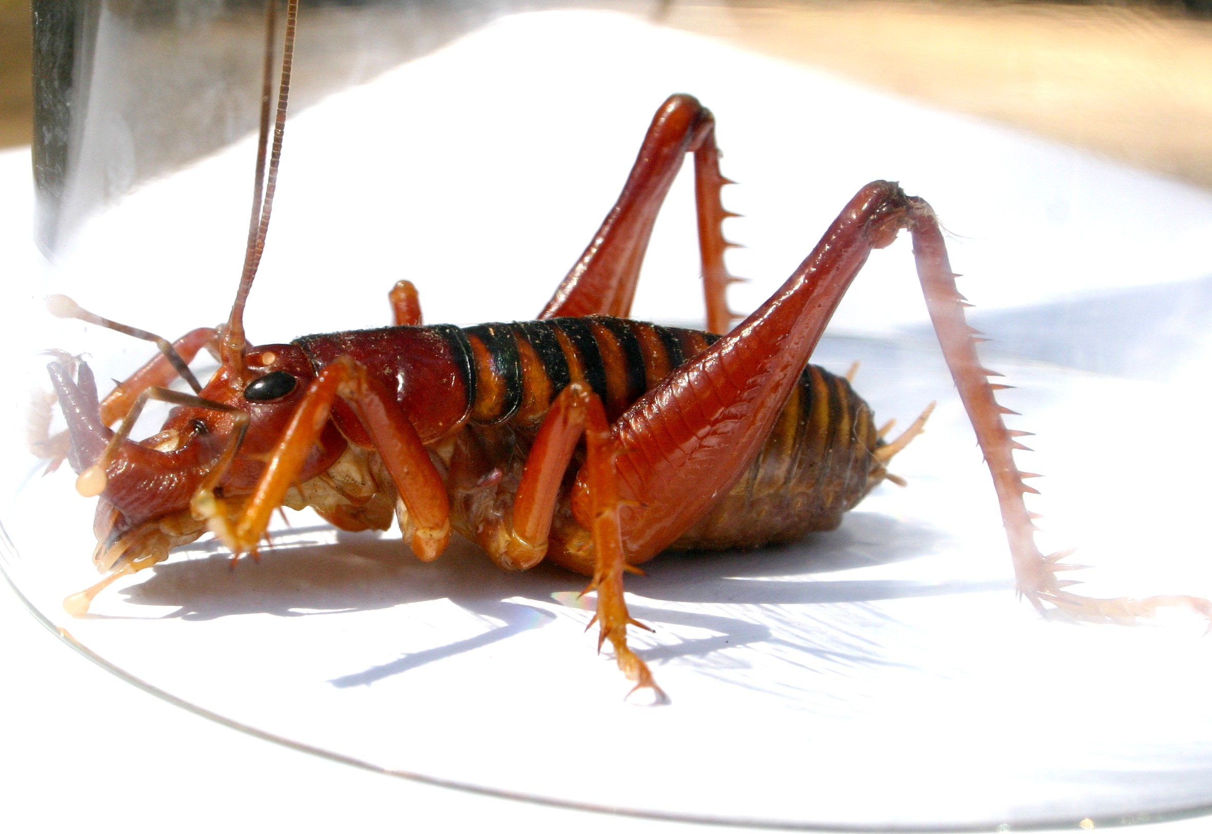 Libanasidus vittatus aka Parktown Prawn - Gauteng, South Africa - nocturnal in habit - photographed under tumbler